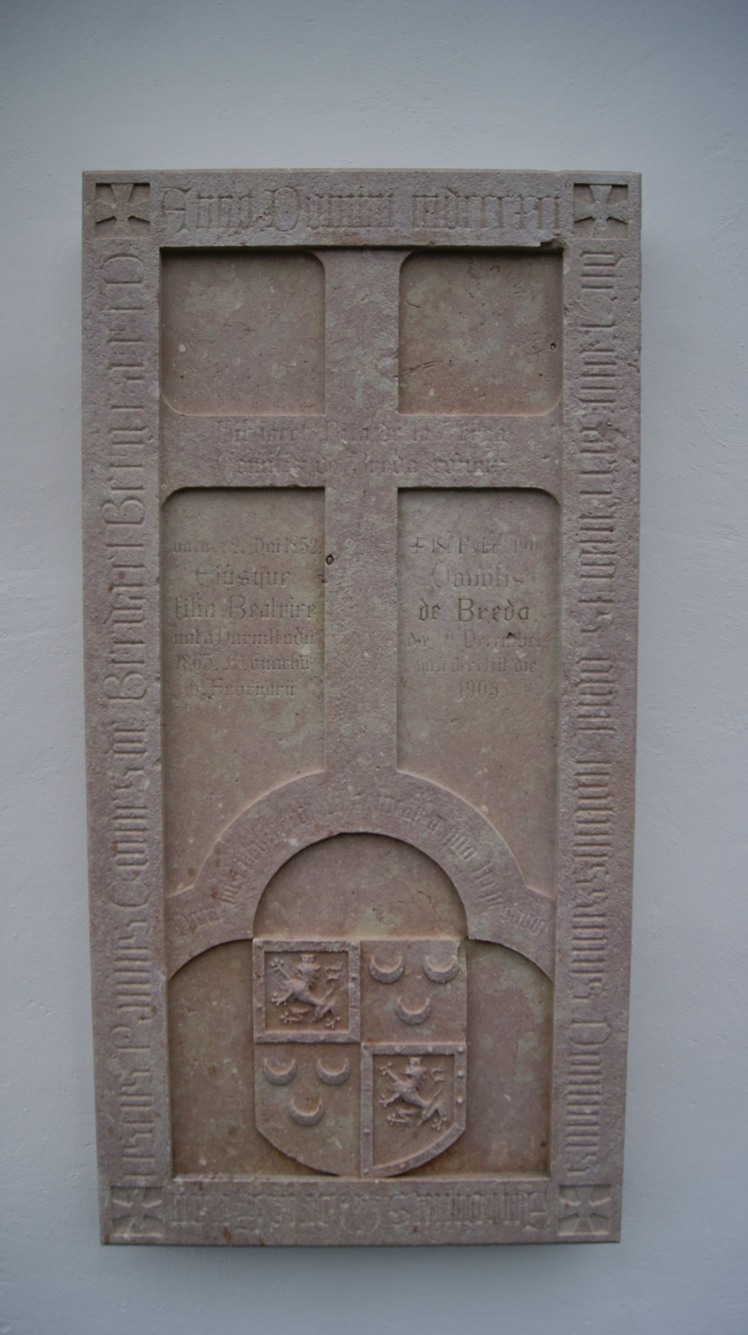 Parish Church of the Visitation in Haselstauden. Pilgrimage church in Dornbirn, Vorarlberg, Austria. Devotional chapel in the cemetery - Grave stone of de Breda Family. Count Anton Maria Franz Paul de Breda (* 25 January 1830 Castle Bertichères;. † 19 December 1891 in Haselstauden), member of the French embassy in Darmstadt. He arrived in 1866 with his family, wife Rita Victoria and daughter Beatrix to Dornbirn, Haselstauden. Bought the inn "Gams" (1974 canceled). Regarded as a great benefactor of the church.